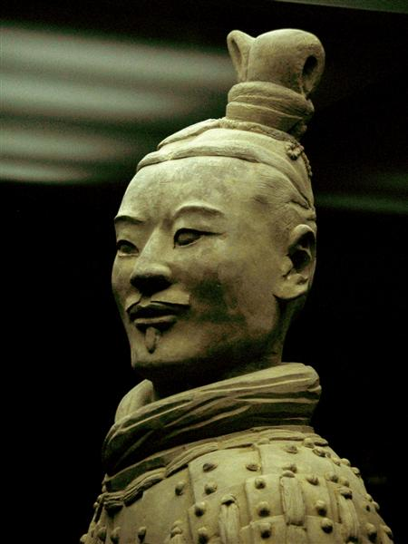 Photo of an officer of the Terracotta Army.